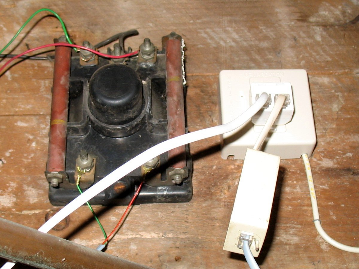 Residential demarcation point (photo taken in Montreal, Quebec, Canada)